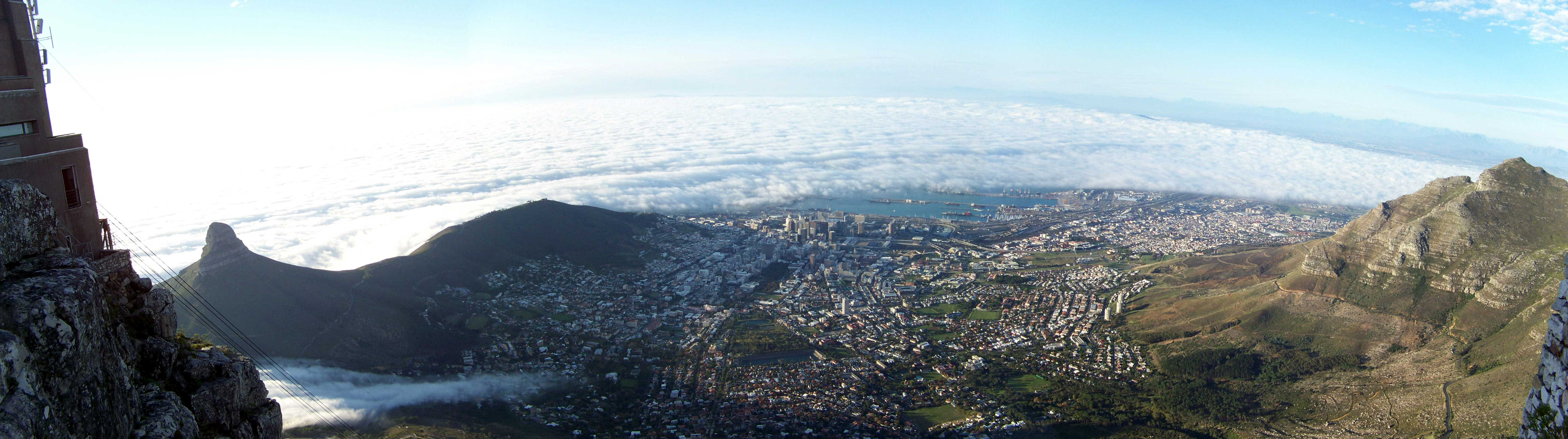 View of Cape Town's "city bowl" from Table Mountain